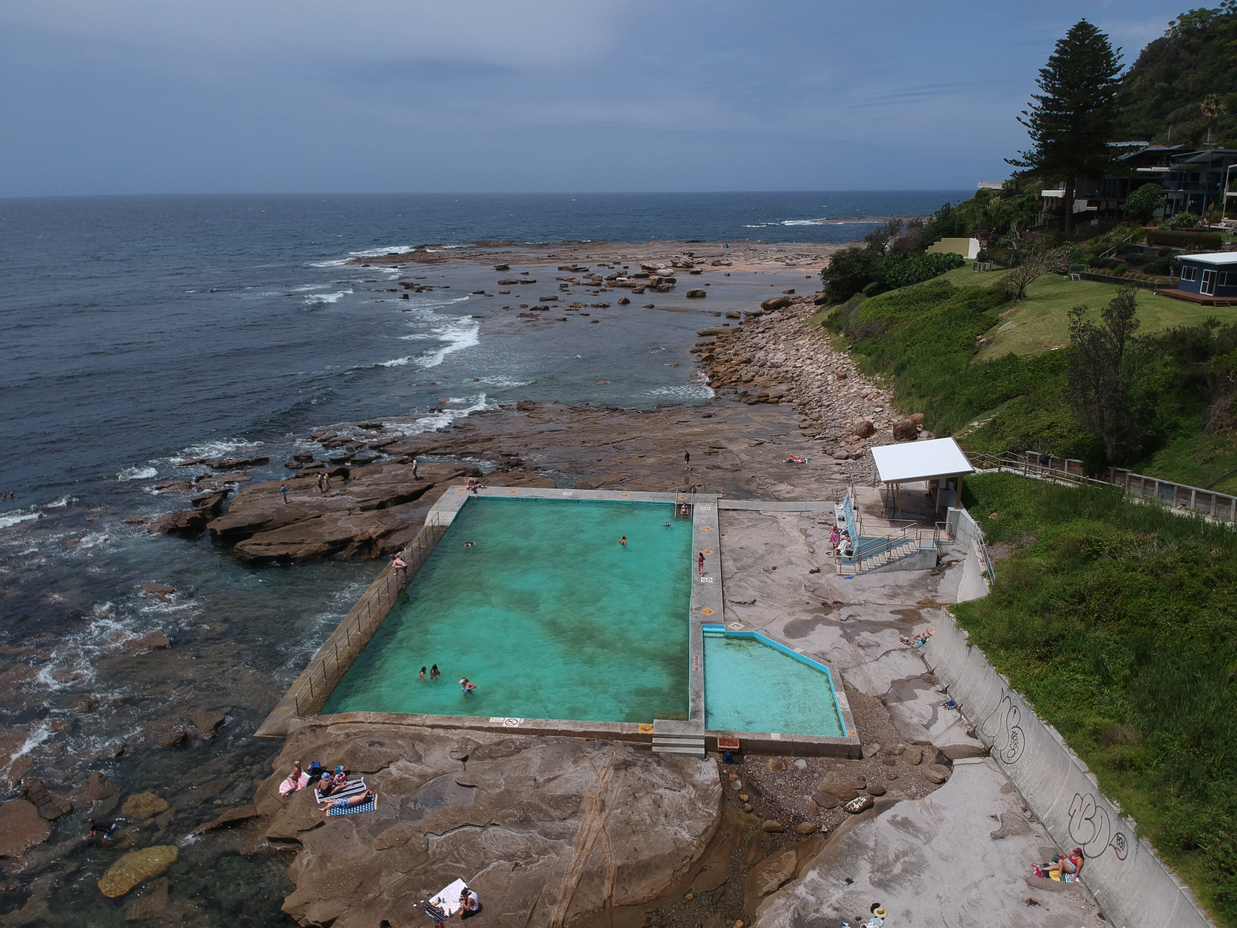 Coalcliff Rock Pool, Coalcliff, NSW, Australia